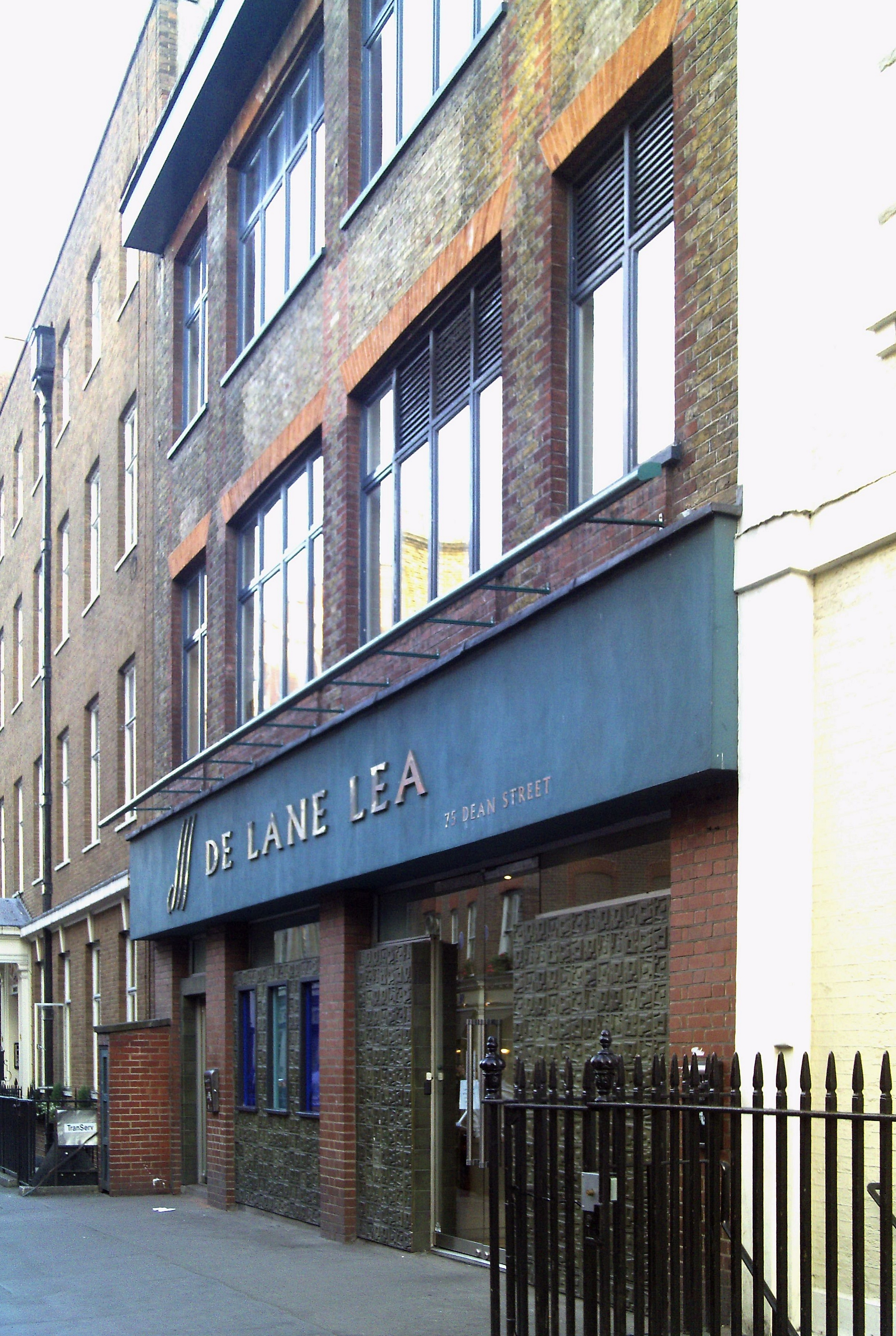 De Lane Lea Studios, 75 Dean Street, Soho, London. This premises has mainly been used for film and television soundtracks. Note: The Beatles, Pink Floyd, Deep Purple, Jimi Hendrix and others groups of the time did not record at these studios but at the De Lane Lea Studios at 129 Kingsway, Holborn, London.